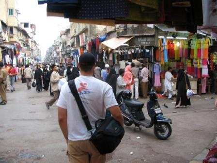 Bhindi Bazaar